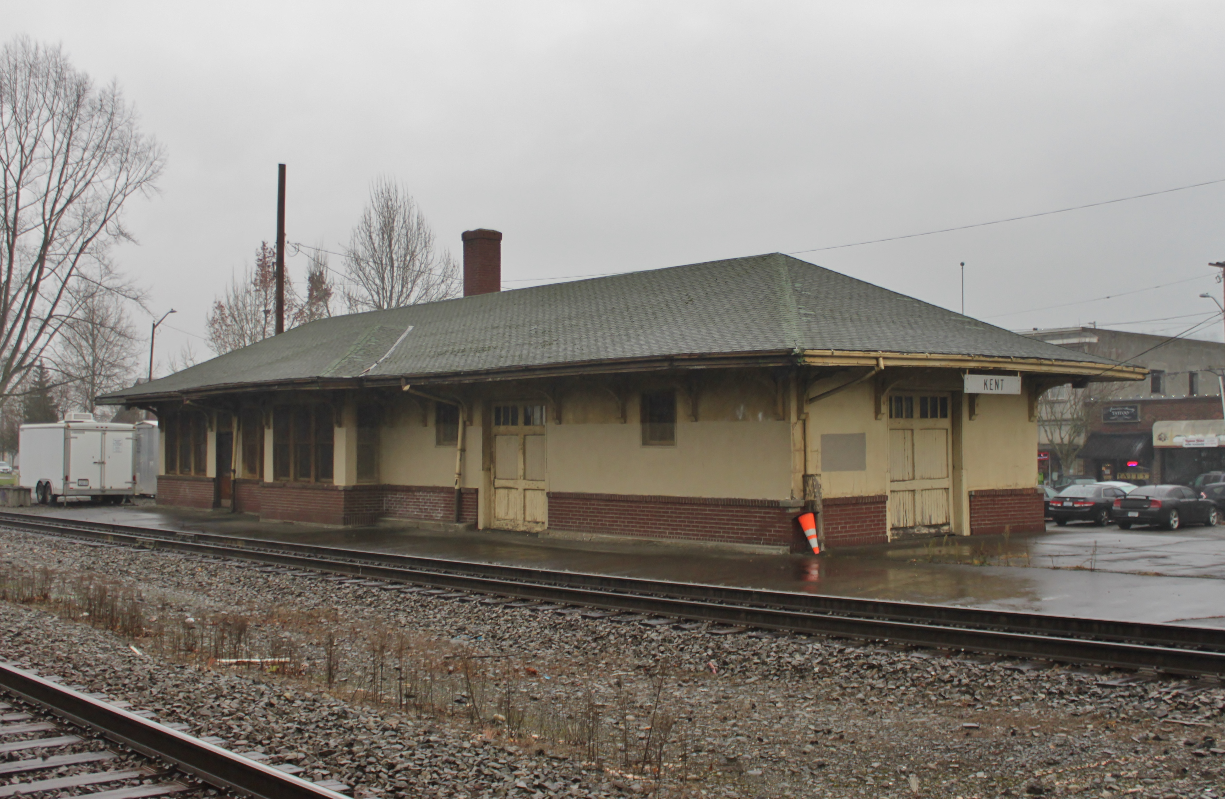 The historic Northern Pacific Railway depot in Kent, Washington, located two blocks south of the modern commuter train station.